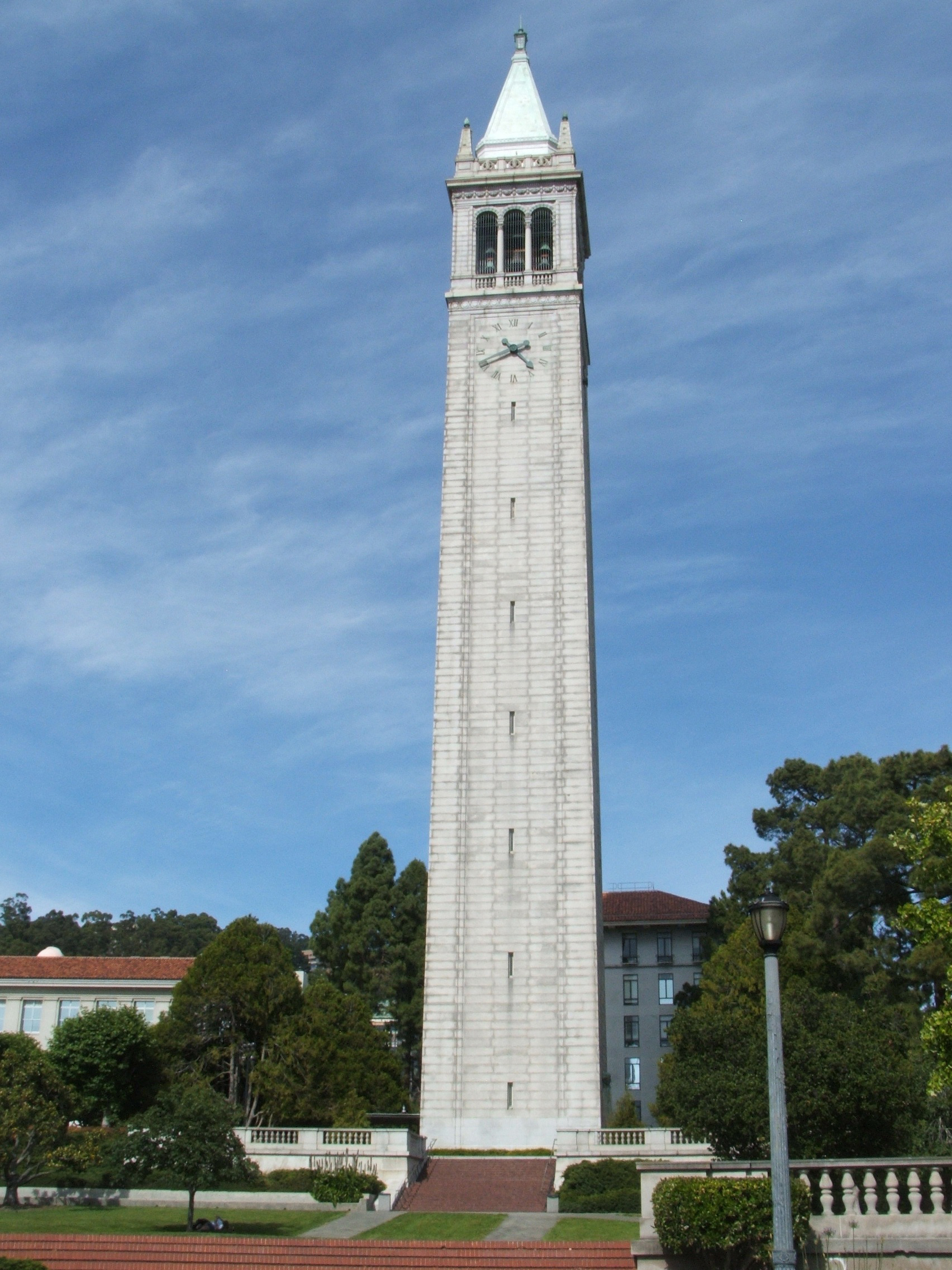 Campanile, University of California, Berkeley, California.